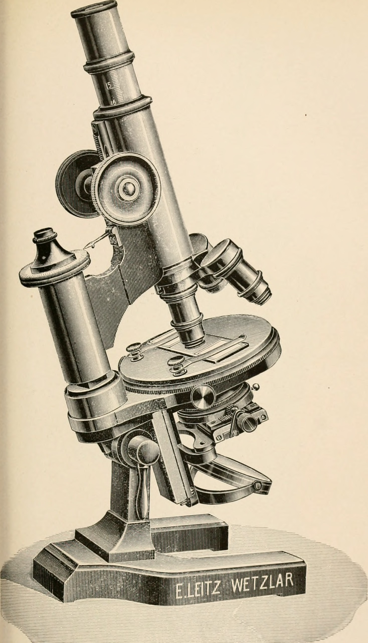 Title: Annales de la Socit belge de microscopie Year: 1875-1907 (1870s) Authors: Socit belge de microscopie Subjects: Microscopy Publisher: Bruxelles : H. Manceaux Text Appearing Before Image: Bull. Soc. belge de Micr. T. XXII, pi. V. Text Appearing After Image: '